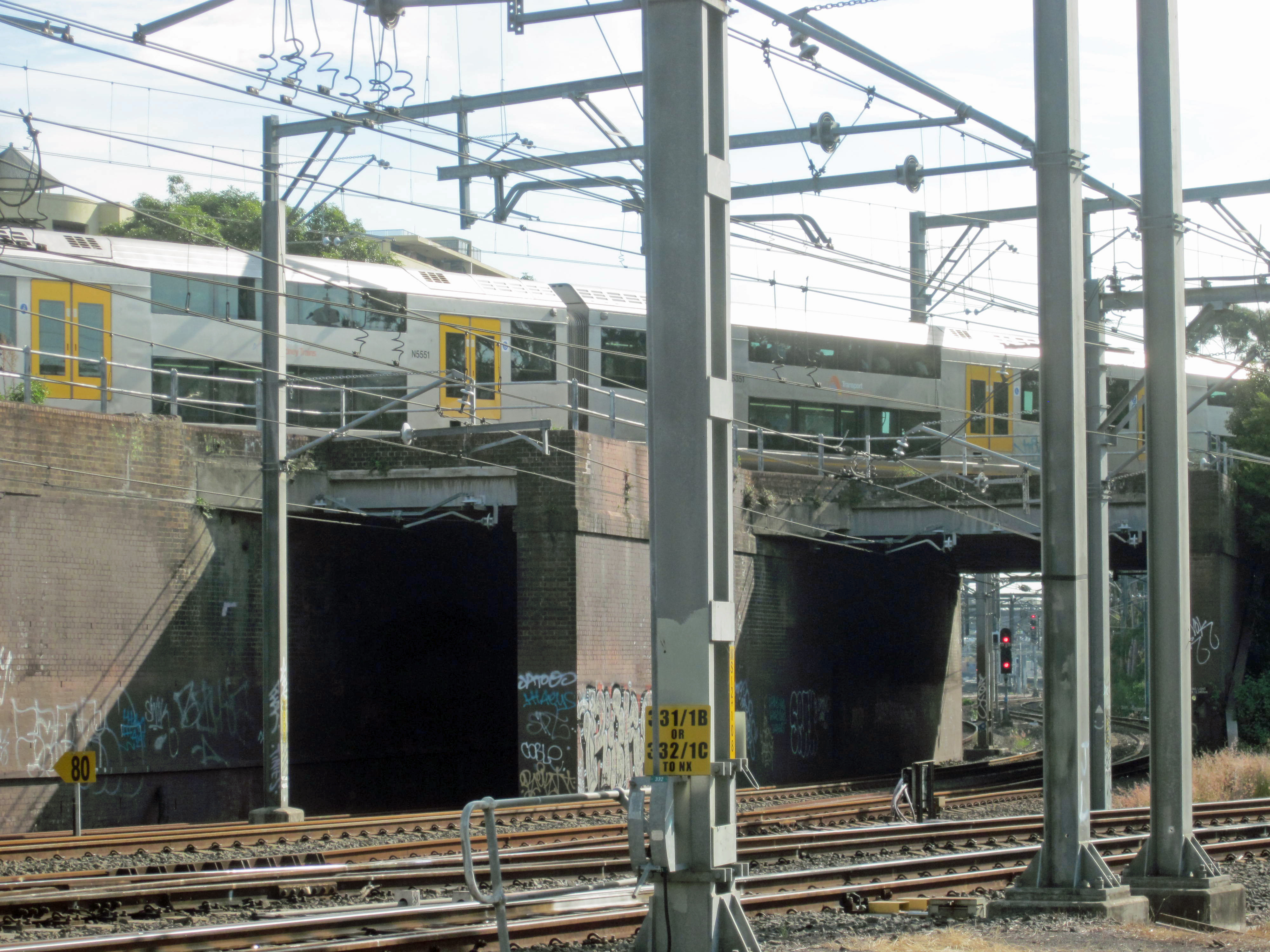 Strathfield rail underbridges viewed from Cooper Street, near Leicester Avenue, Strathfield, New South Wales. The underbridges are listed on the New South Wales State Heritage Register.